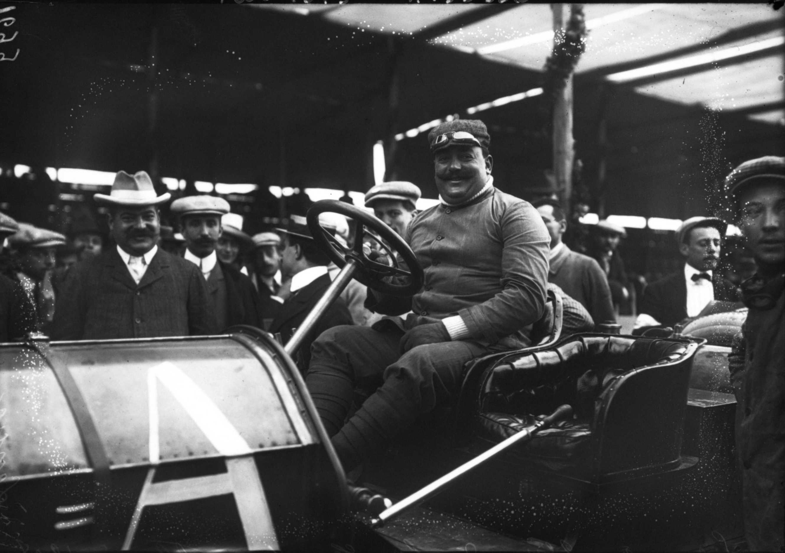 Vincenzo Lancia in his Fiat at the 1908 Targa Florio.